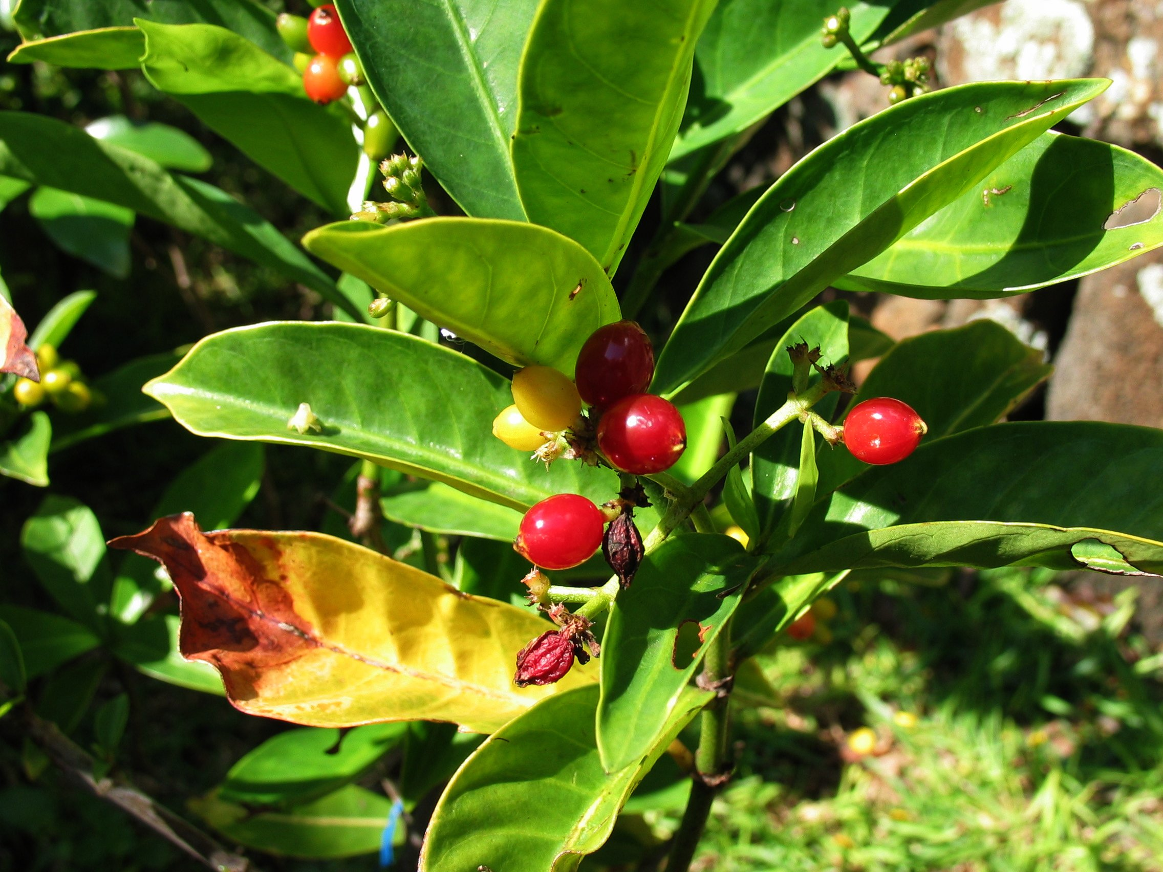 Aploghating or aplokhating Rubiaceae Endemic to the Mariana Islands Oʻahu (Cultivated)